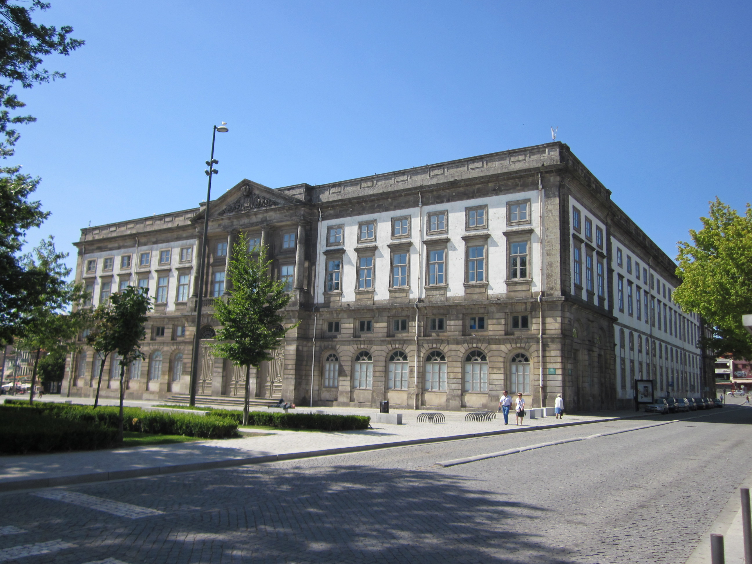 Rectorate of the University of Porto, Oporto, Portugal.